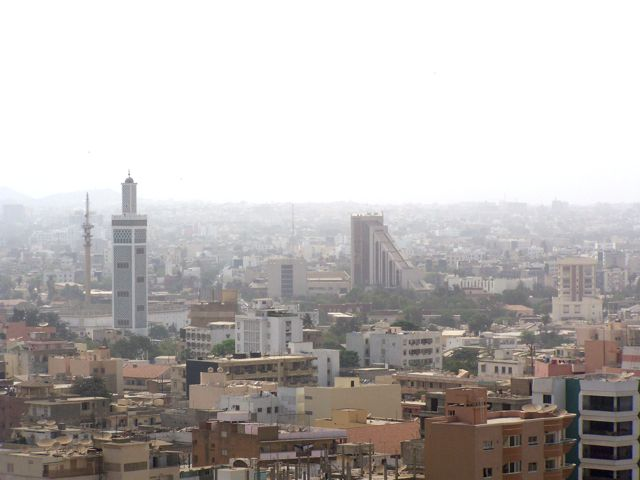 Mosquée de dakar